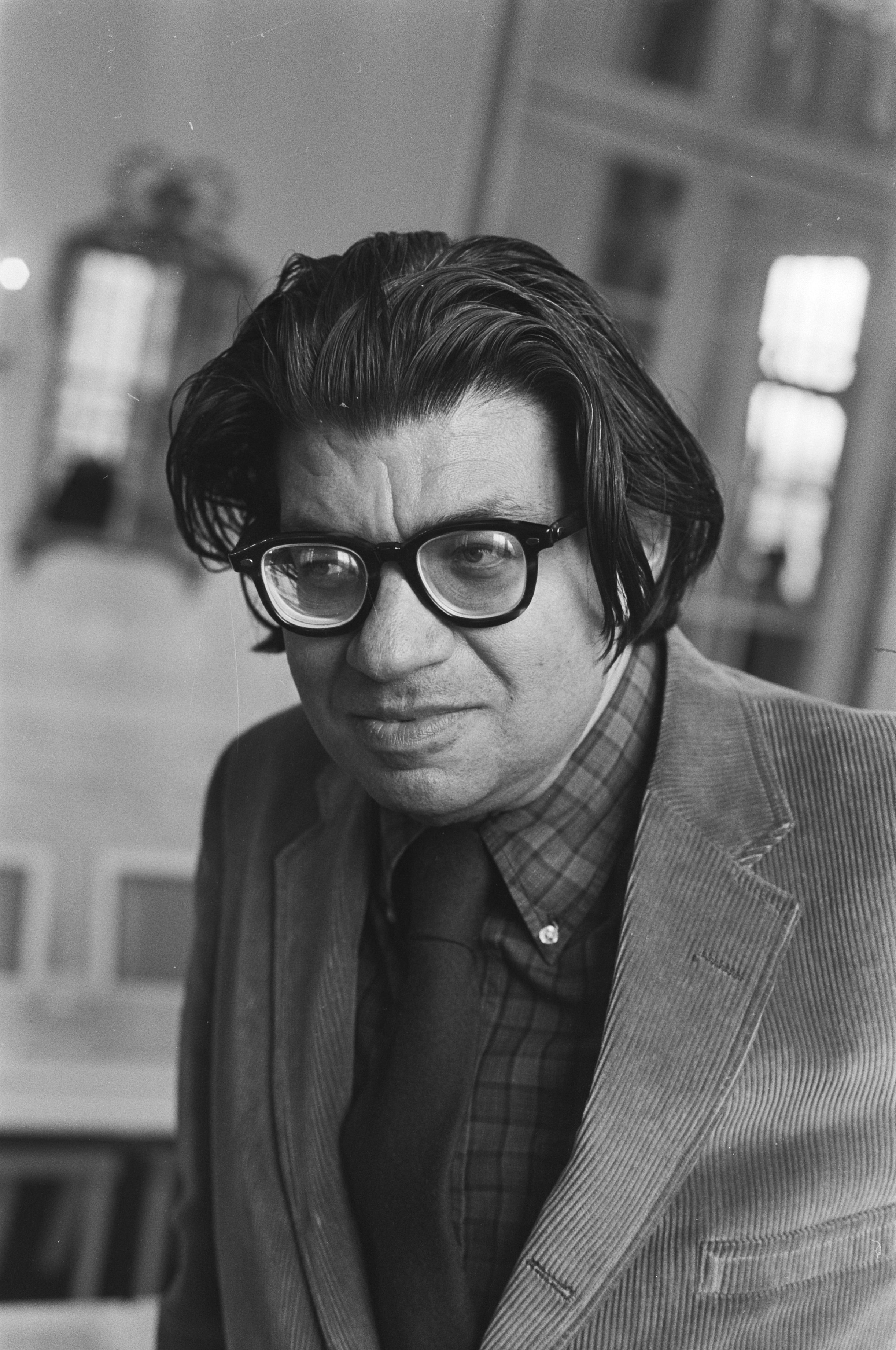 The composer Morton Feldman (Holland Festival 1976.)